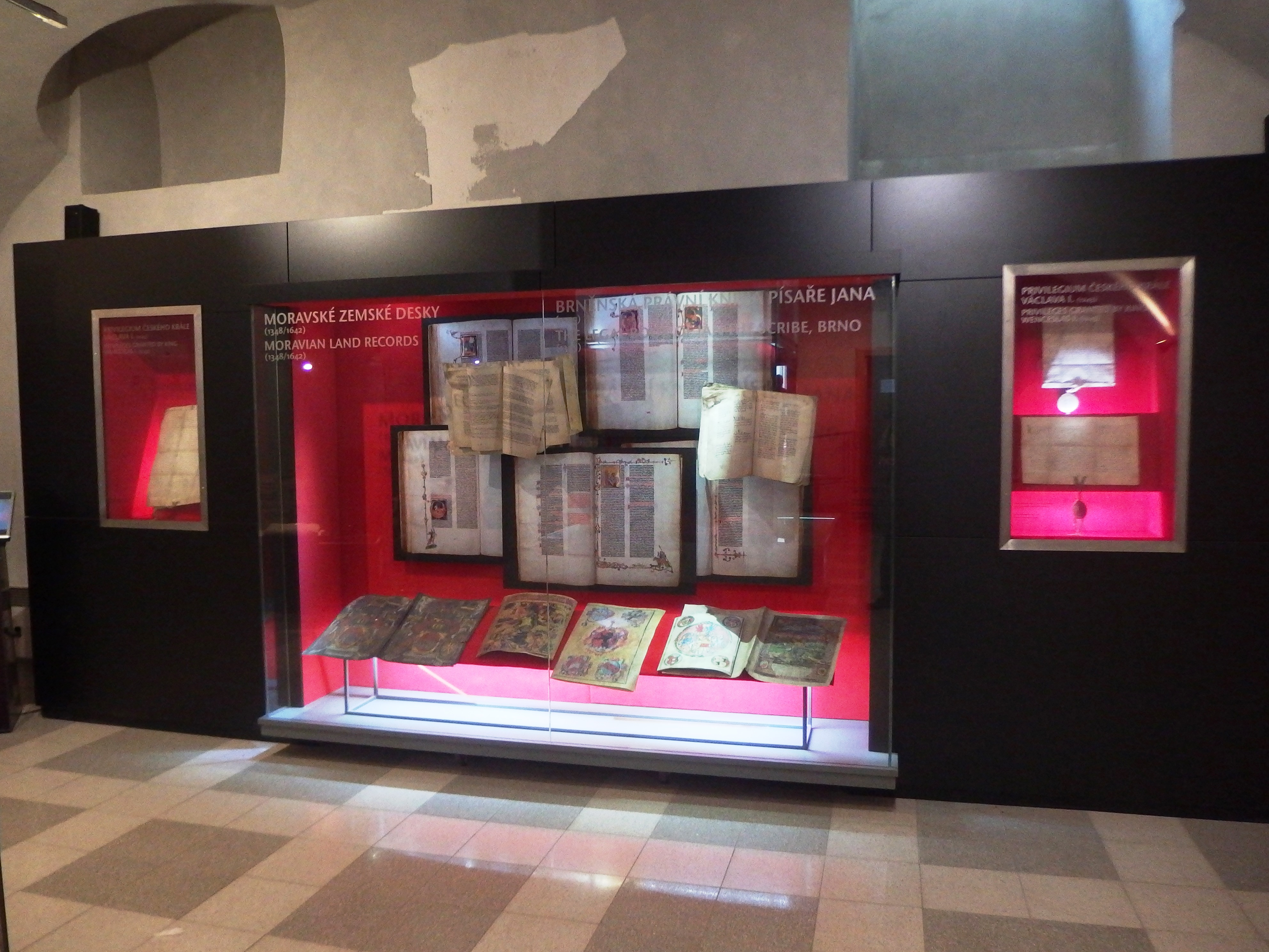 Brno, Czech Republic. Mintmaster's cellar.